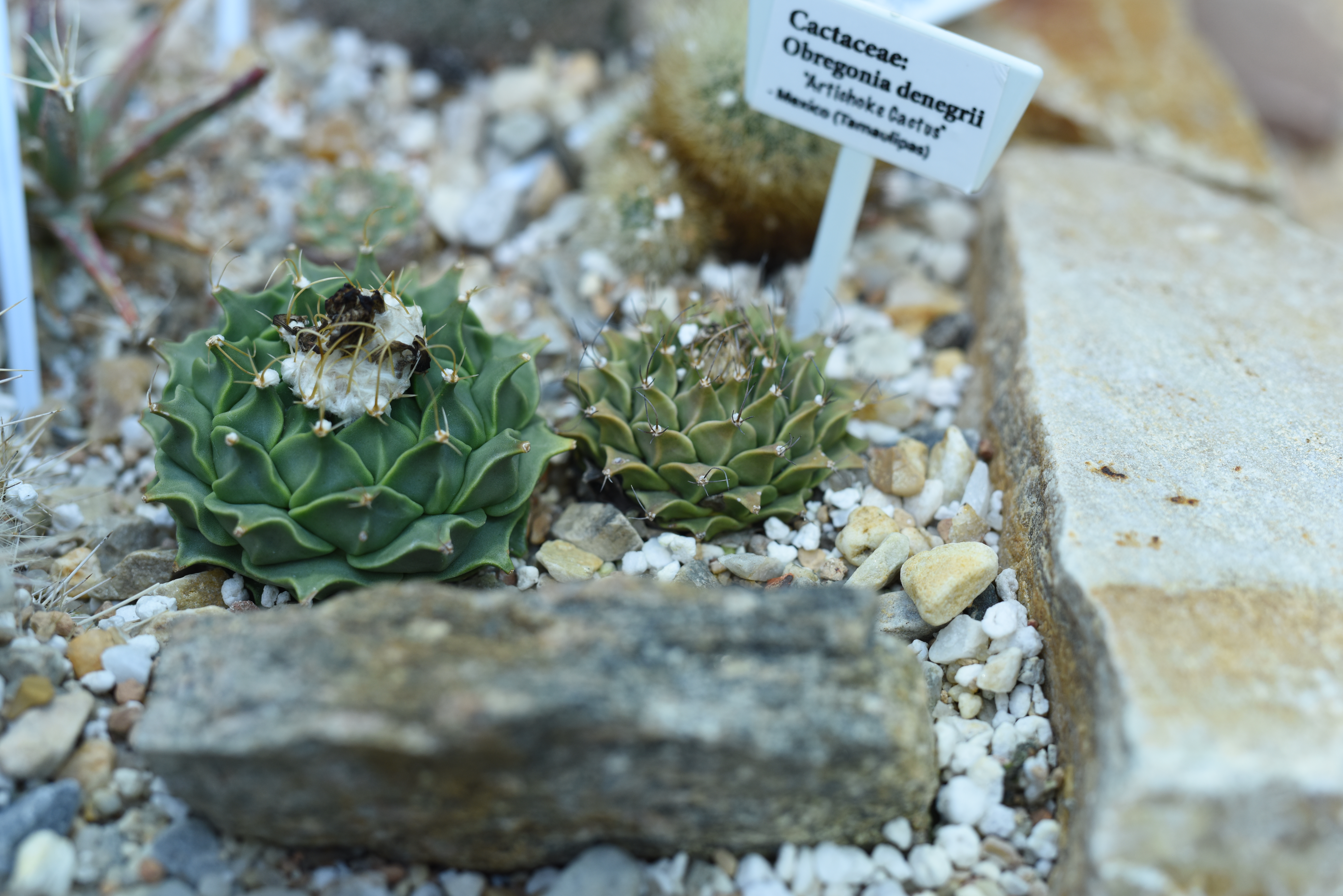 Cactaceaeː Obregonia denegril, "Artichoke Cactus". Found at Yale 's Marsh Botanical Garden.